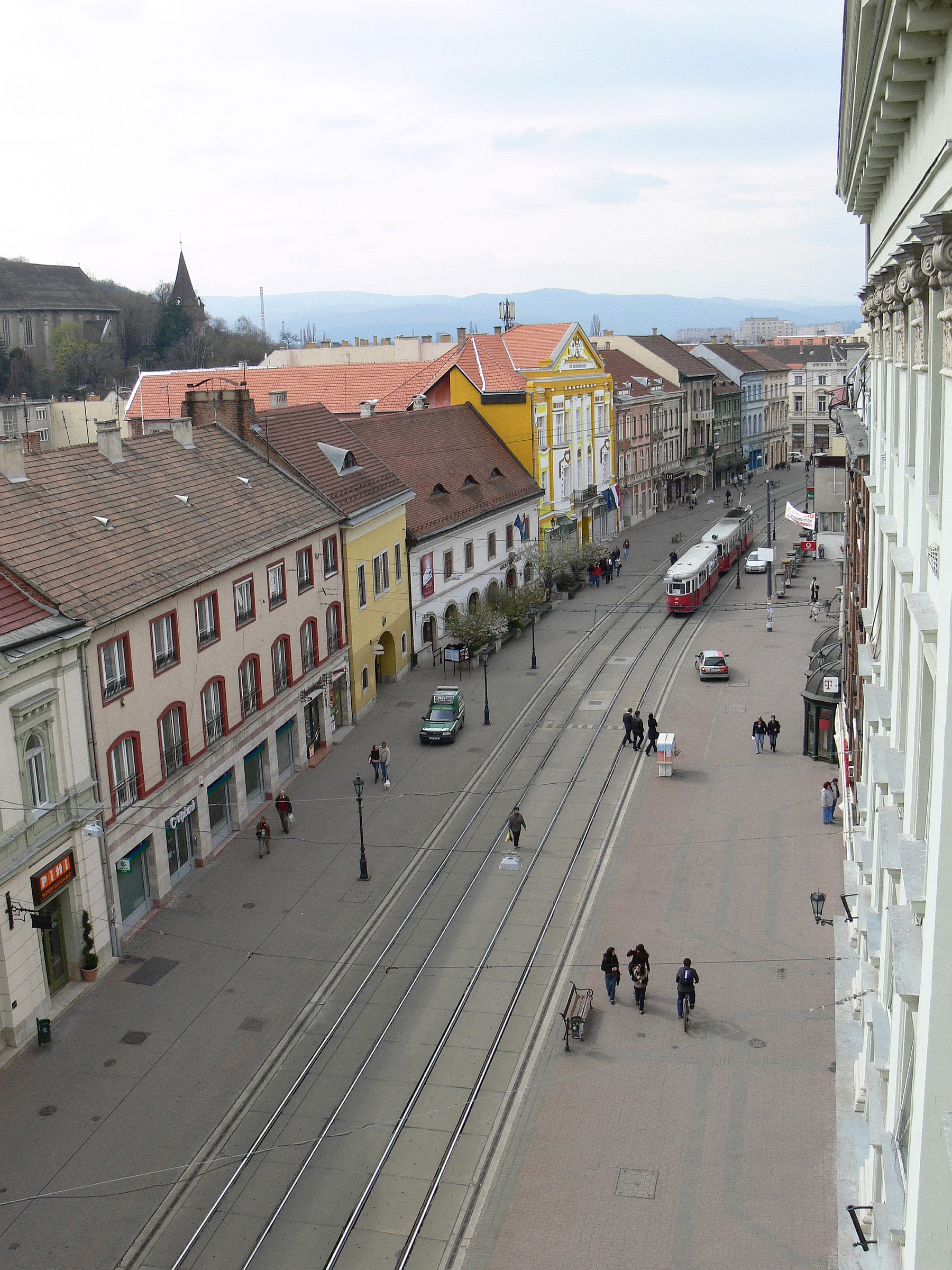 Széchenyi street of Miskolc city, Hungary